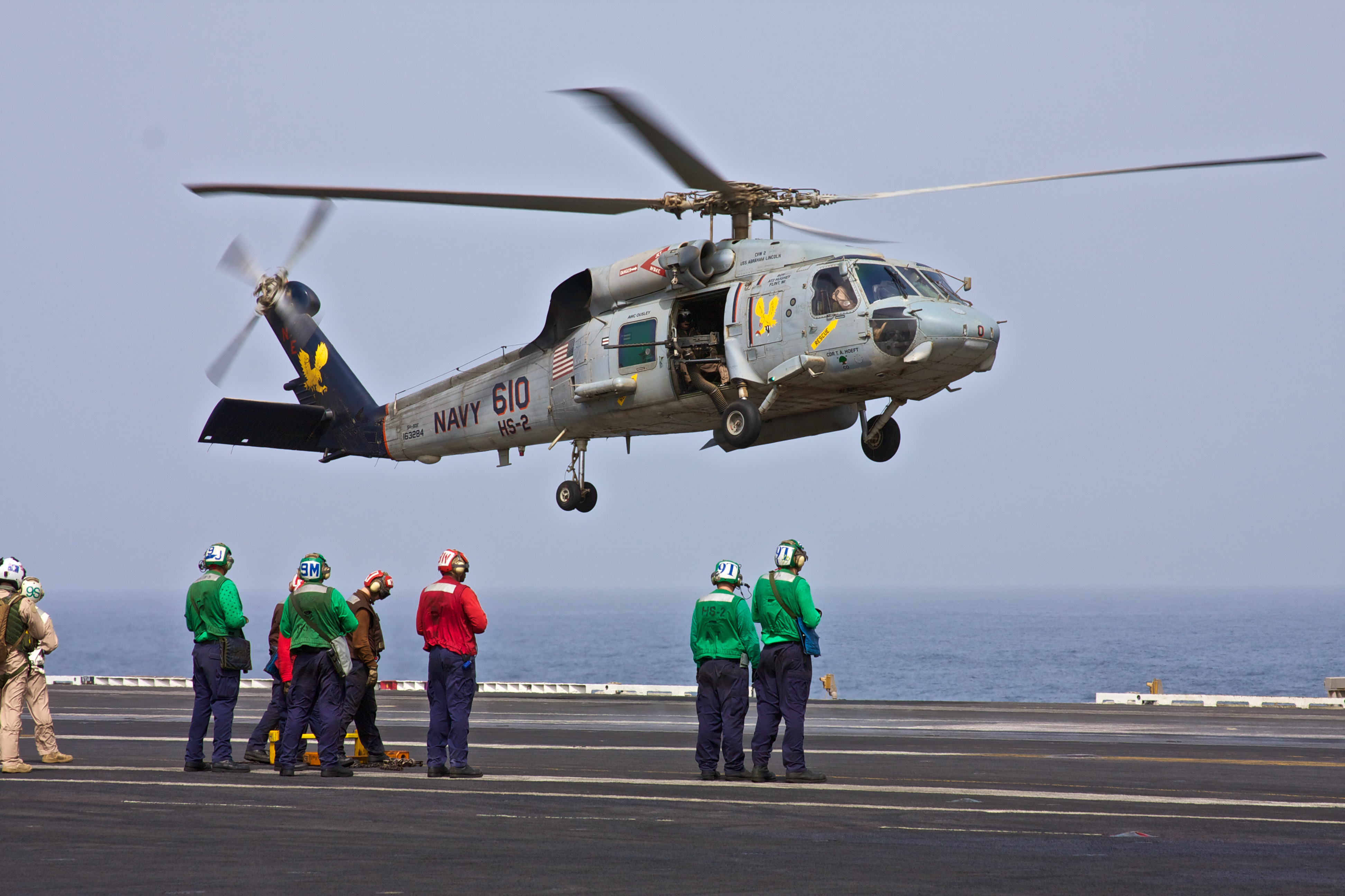 NE610, a Sikorsky SH-60F Seahawk helicopter of HS-2 Golden Falcons, returns to the CVN-72 USS Abraham Lincoln after a mission in the Gulf of Oman (July 2008)